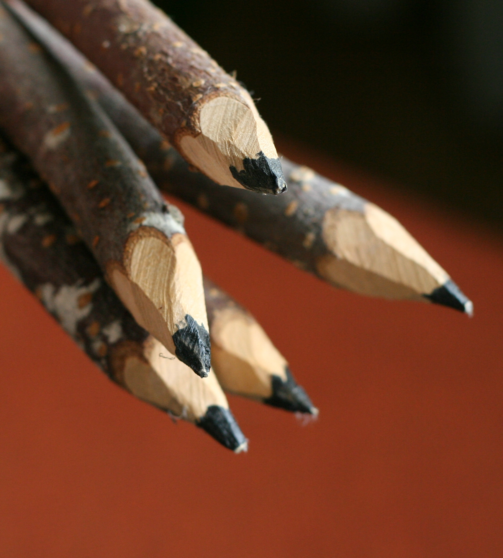 Pencils